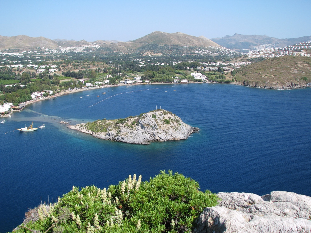 View of the Rabbit Island and Gümüslük bay (ancient Myndus) from surrounding hills.